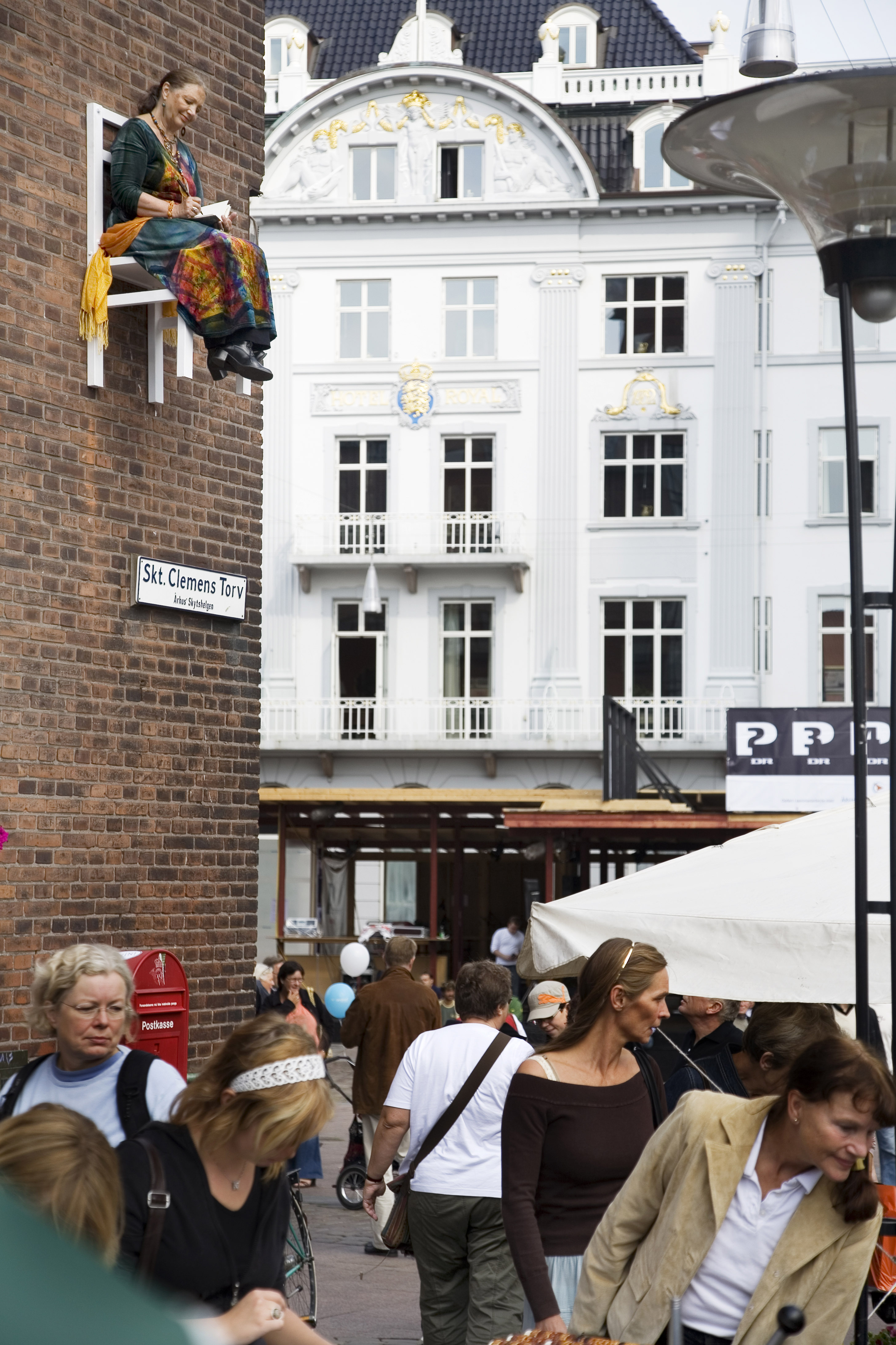 During Aarhus Festuge 2006 (Womania), German artist Angie Hiesl placed 10 chairs on walls in Aarhus. Each chair had a woman aged between 60 and 80, who would not react on the people passed by. The installation was named ”Mensch in Stuhl” (lit.:Human on Chair)